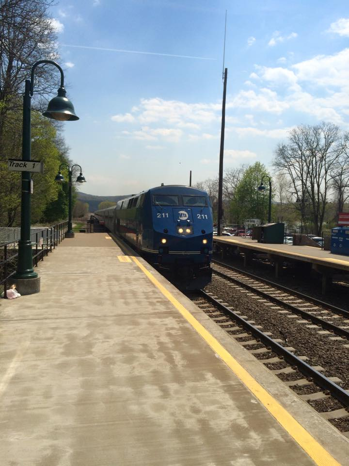 A MetroNorth train arriving at the Cold Spring station.